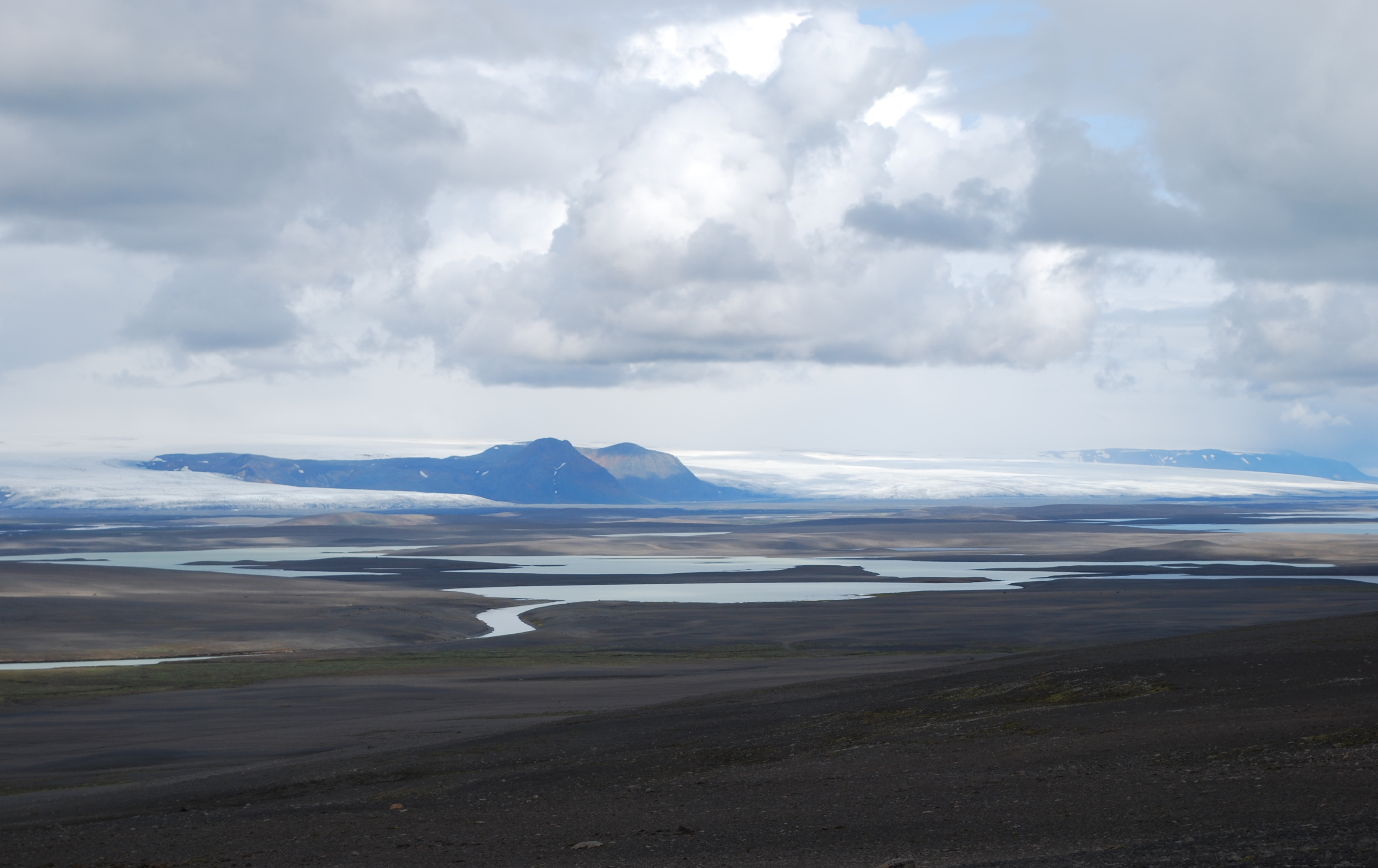 Hofsjökull glacier, Iceland.